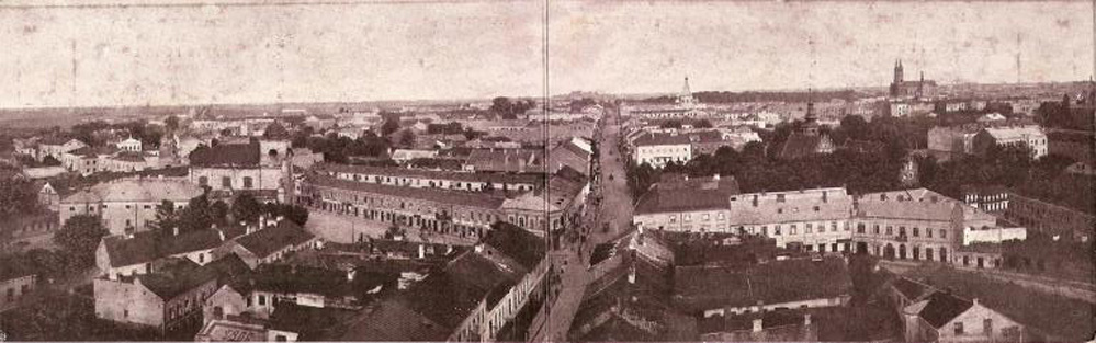 Panorama od Radom, Poland (1914)